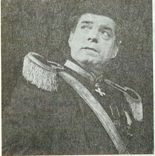 Romanian actor Silviu Stănculescu